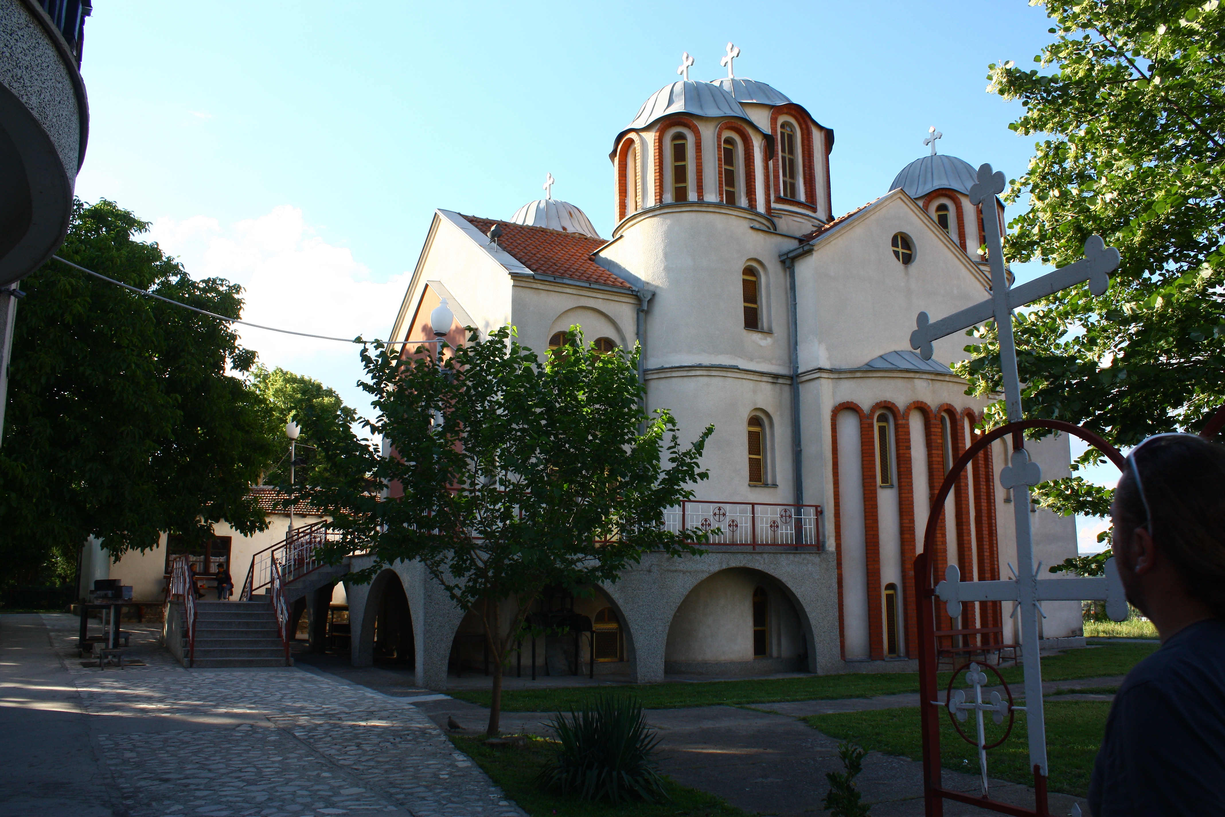 St. Nicholas Church in Sveti Nikole, Macedonia This image is uploaded as part of the picture contest Wiki Loves Cultural Heritage in Macedonia 2013. English | македонски | +/−